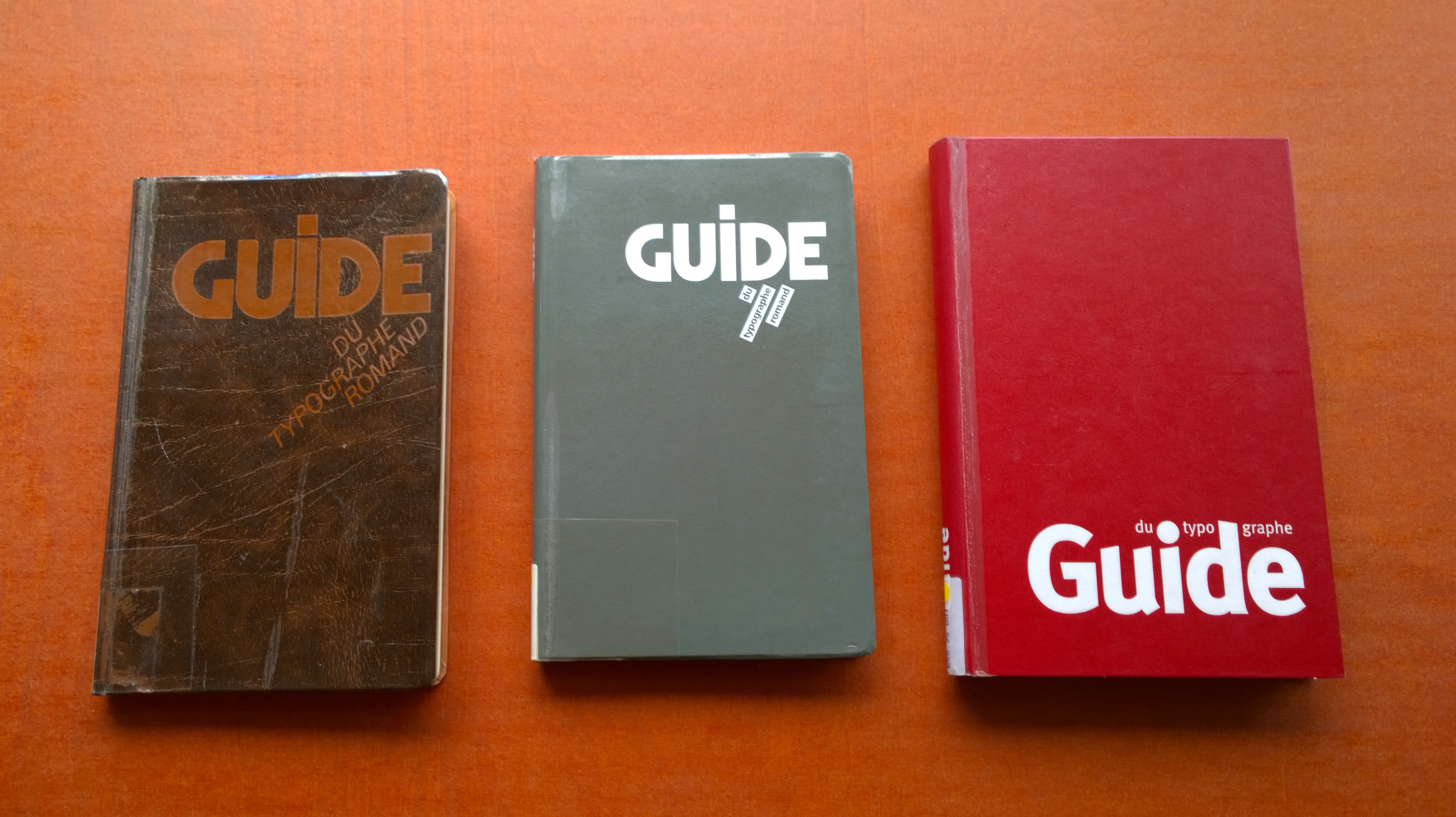 Three editions of the Guide du typographe romand. Brown cover: 4th edition, 1982. Gray cover: 5th edition, 1993. Red cover: 6th edition, 2000.